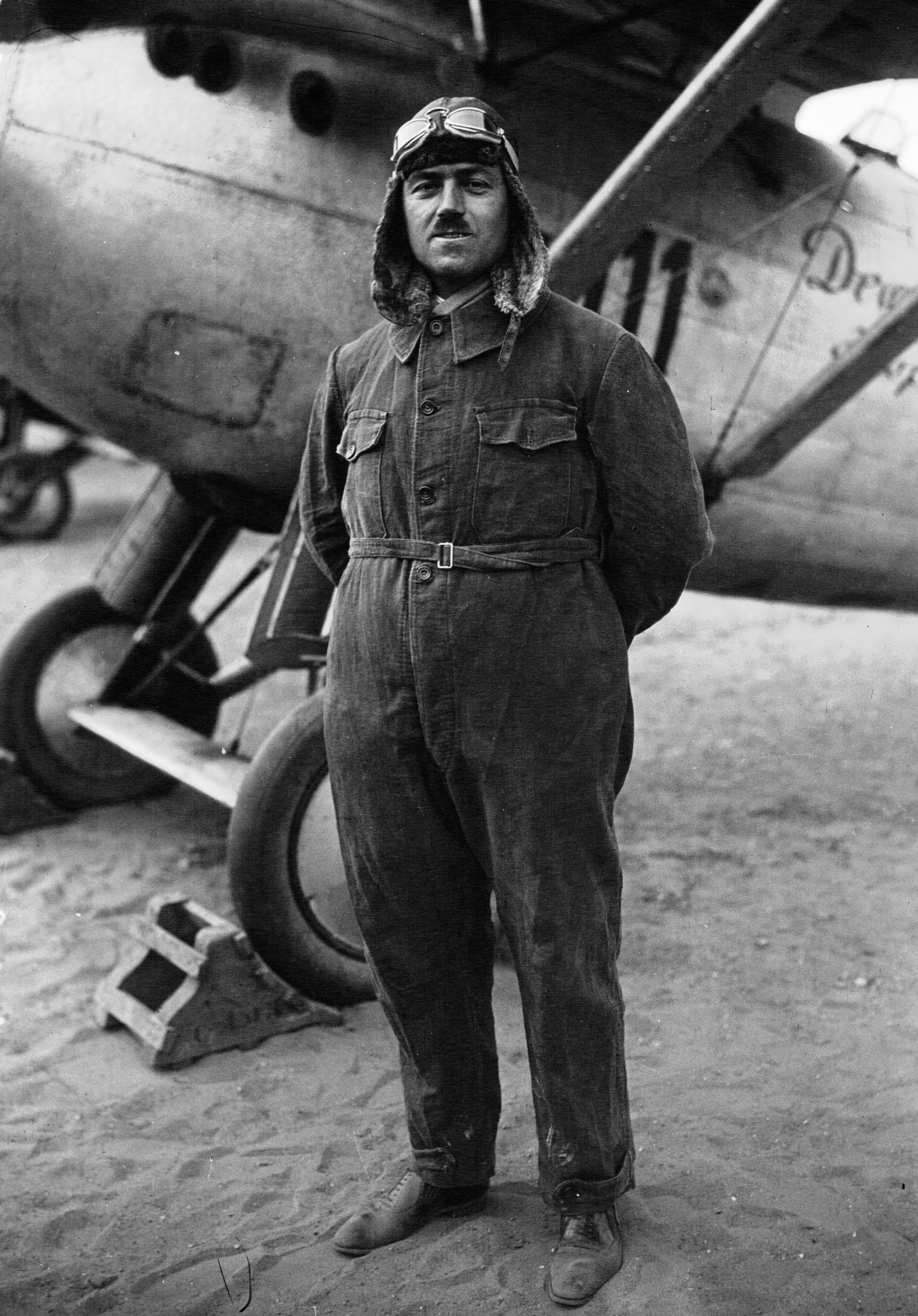 French aviator and test pilot Marcel Doret (1896-1955) standing in front of his Dewoitine D.1 airplane during the Third Air Meeting of Vincennes (Troisième Fête aérienne de Vincennes, May 23rd and 24th, 1926). Doret purchased the plane in 1929.